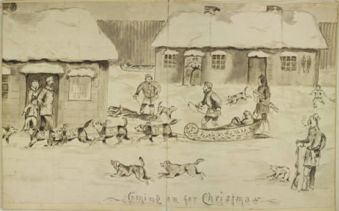 Sketches of Hudson Bay Life: "Coming in for Christmas"